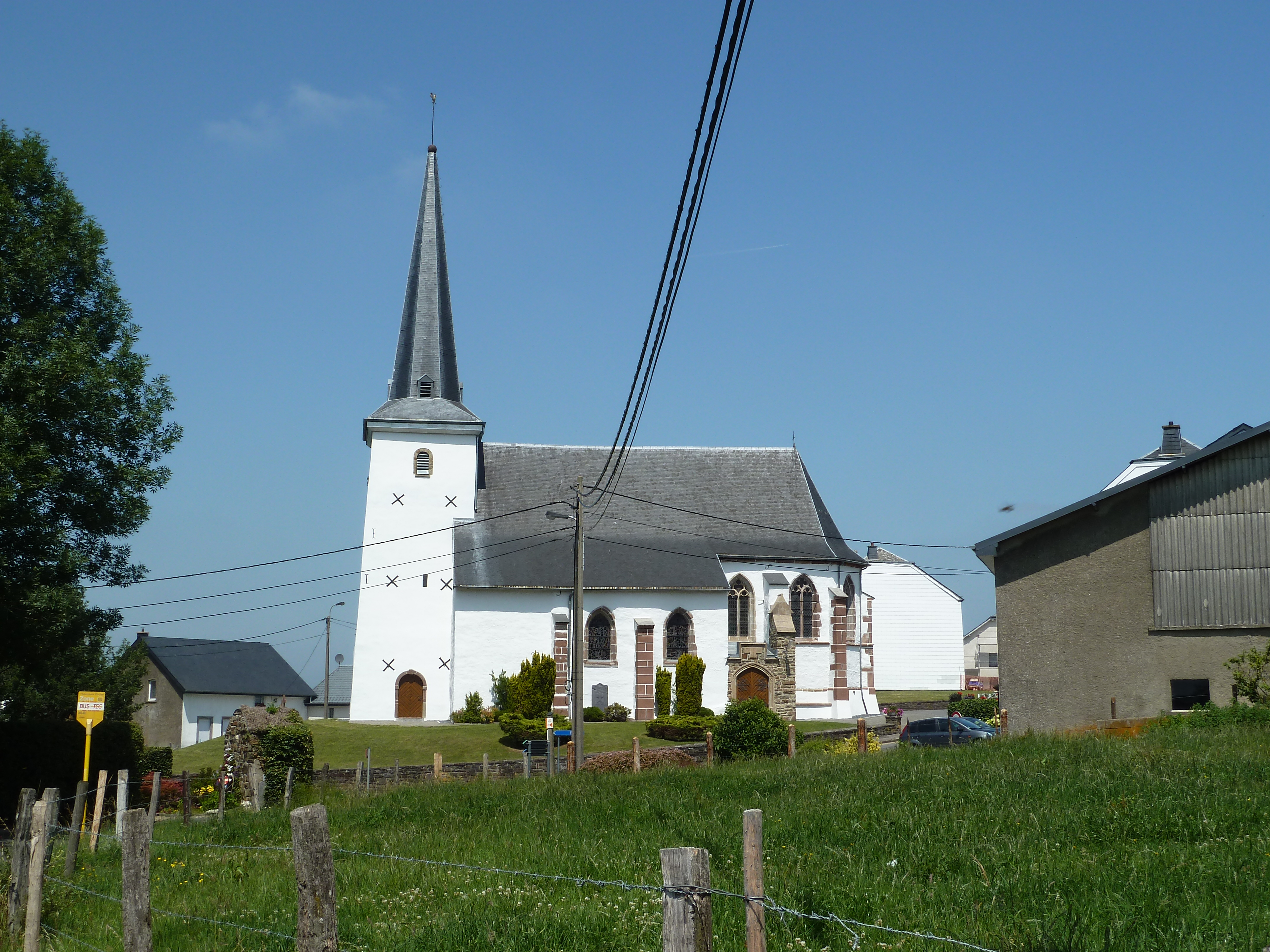 Church of Thommen, Burg-Reuland, Belgium